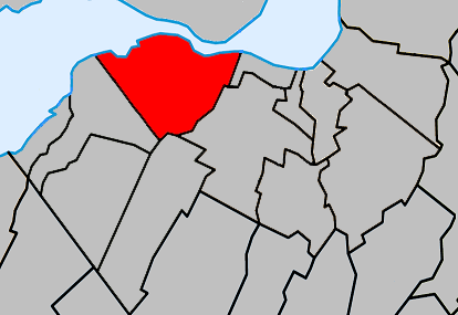 Location of the Native Reserve of Kahnawake, Quebec on Montreal's south shore.